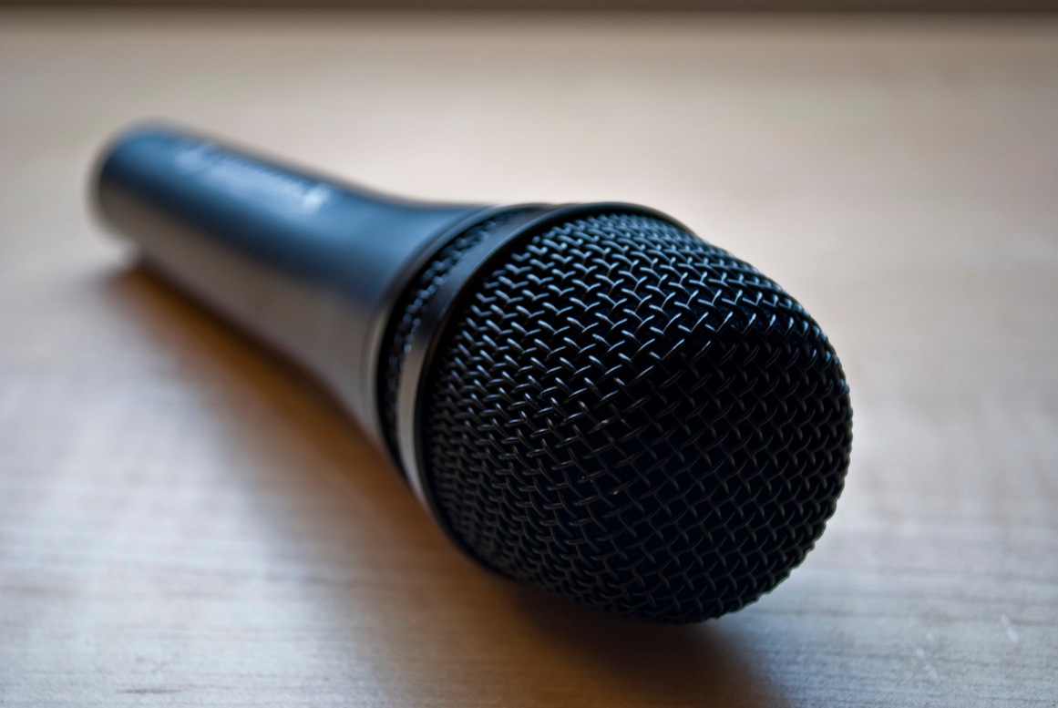 A Sennheiser Microphone